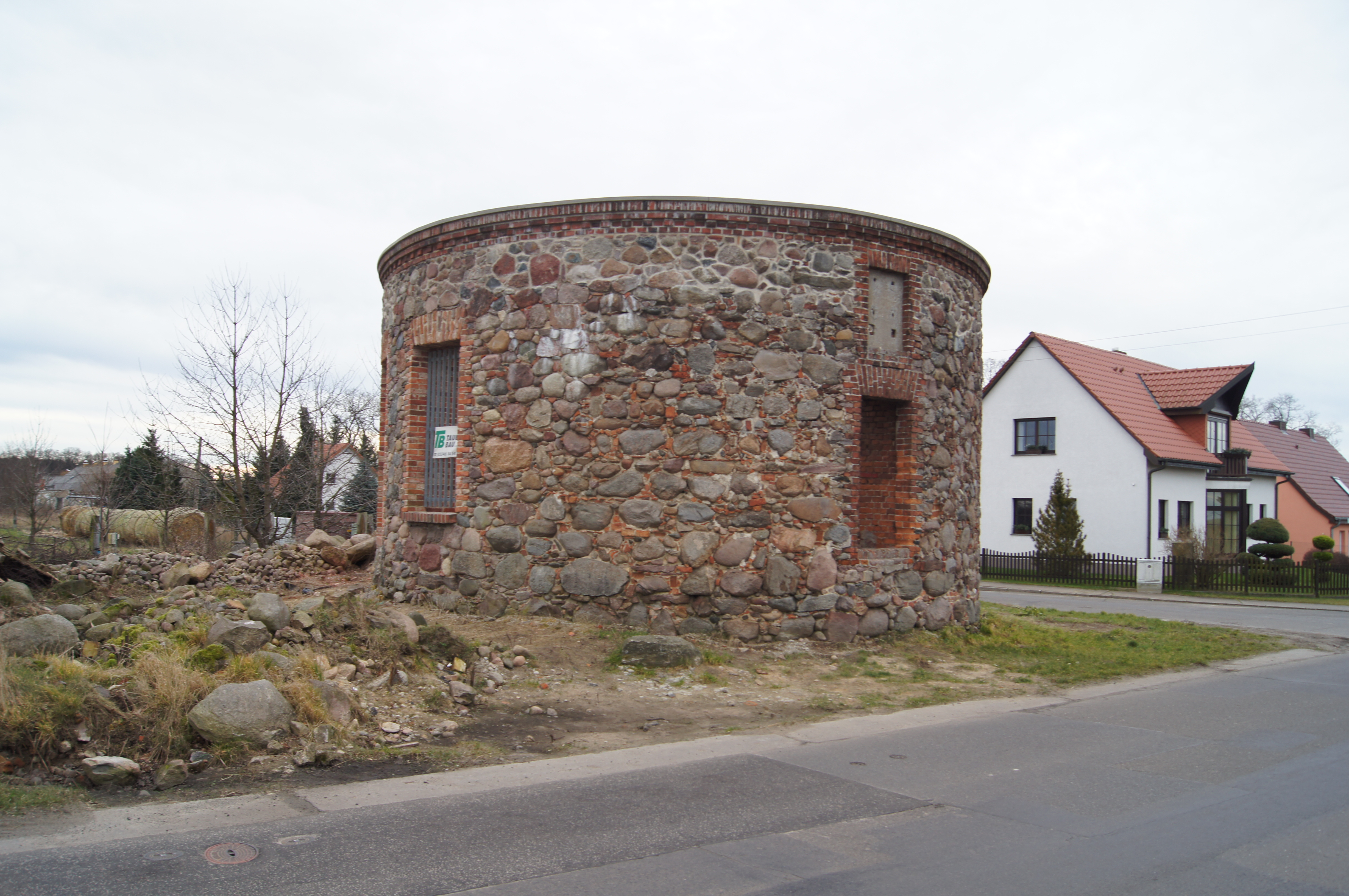 Bismarck Tower in Lichtenberg (Frankfurt (Oder)), Brandenburg, Germany